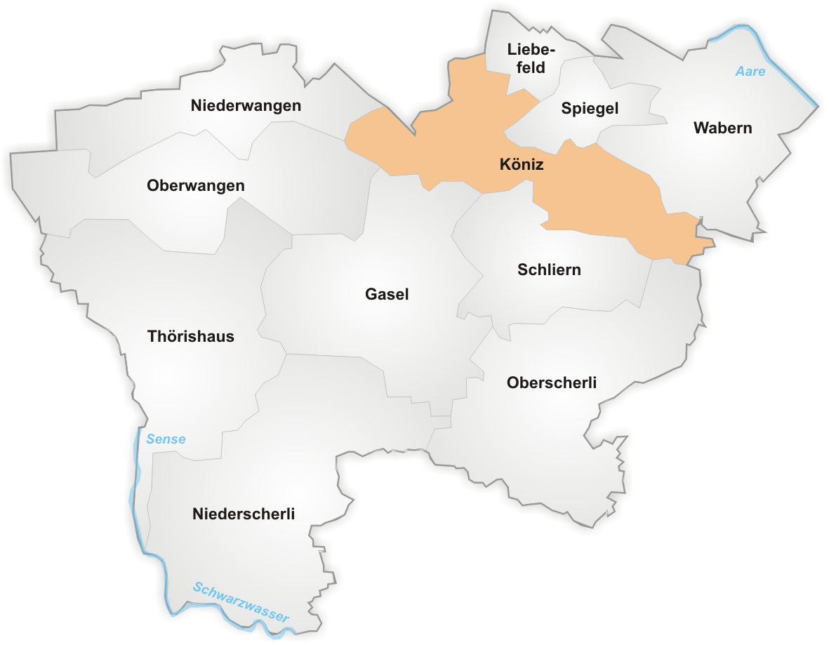 Quarter Köniz